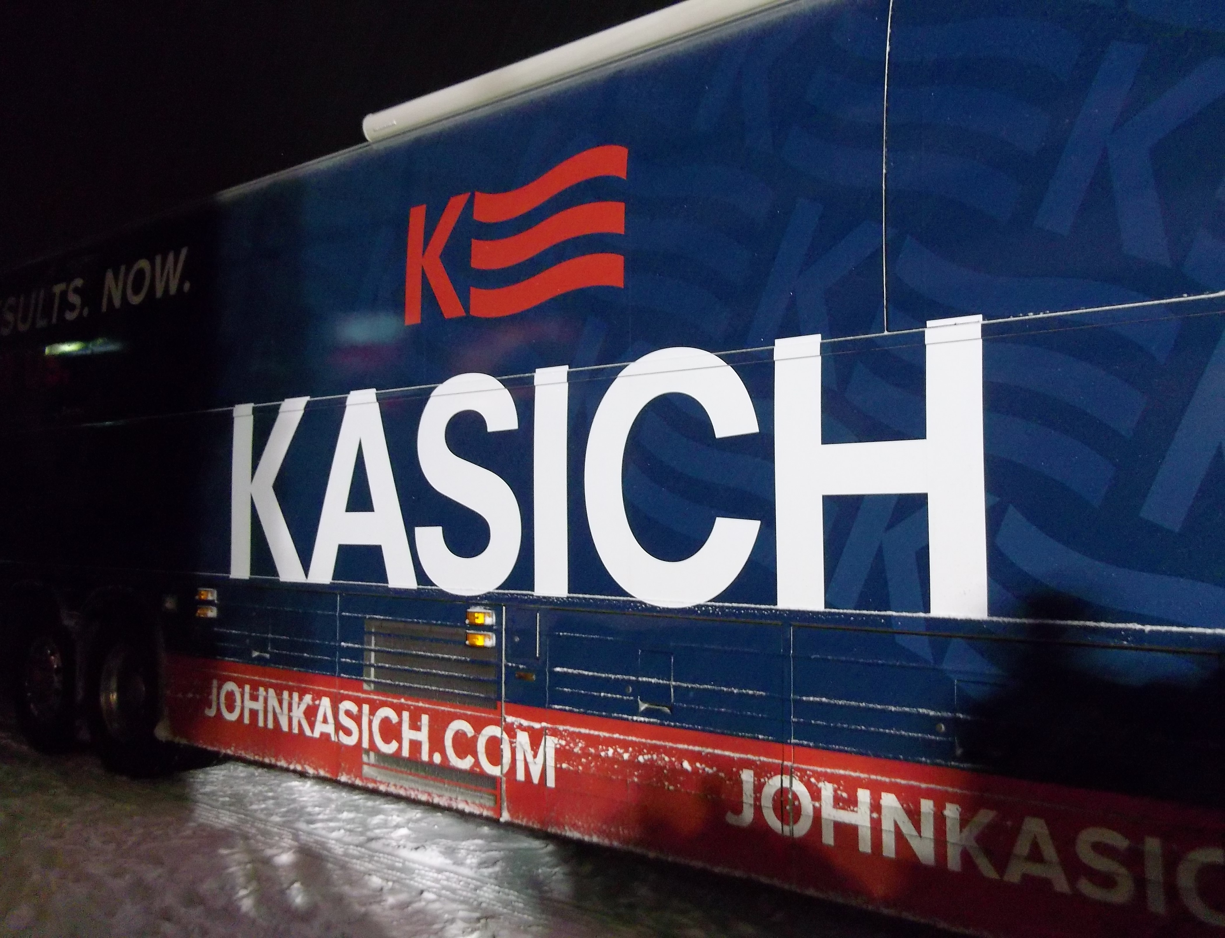 Election campaign bus for Republican Governor John Kasich of Ohio at Robie's Country Store in Hooksett, NH on February 8, 2016 for a primary eve rally.